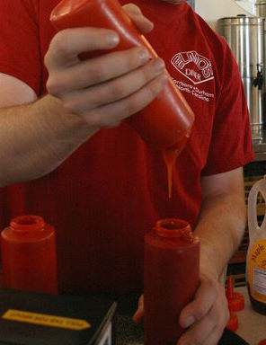 A waiter pouring ketchup at Elmo's Diner in Durham, North Carolina.